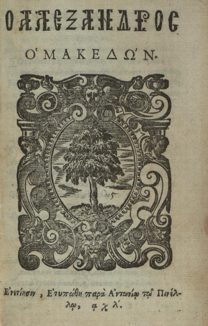 Unique copy of an edition, dating however to 1620. The first edition of the Rimada was printed in Venice in 1529 by the Sabio family, and is based on the Mythistorema tou Megalou Alexandrou by pseudo-Callisthenes. The Rimada, rhyming metrical verse, preceded the edition of the Fyllada tou Megalou Alexandrou, a prose adaptation, first printed in Venice in 1680.